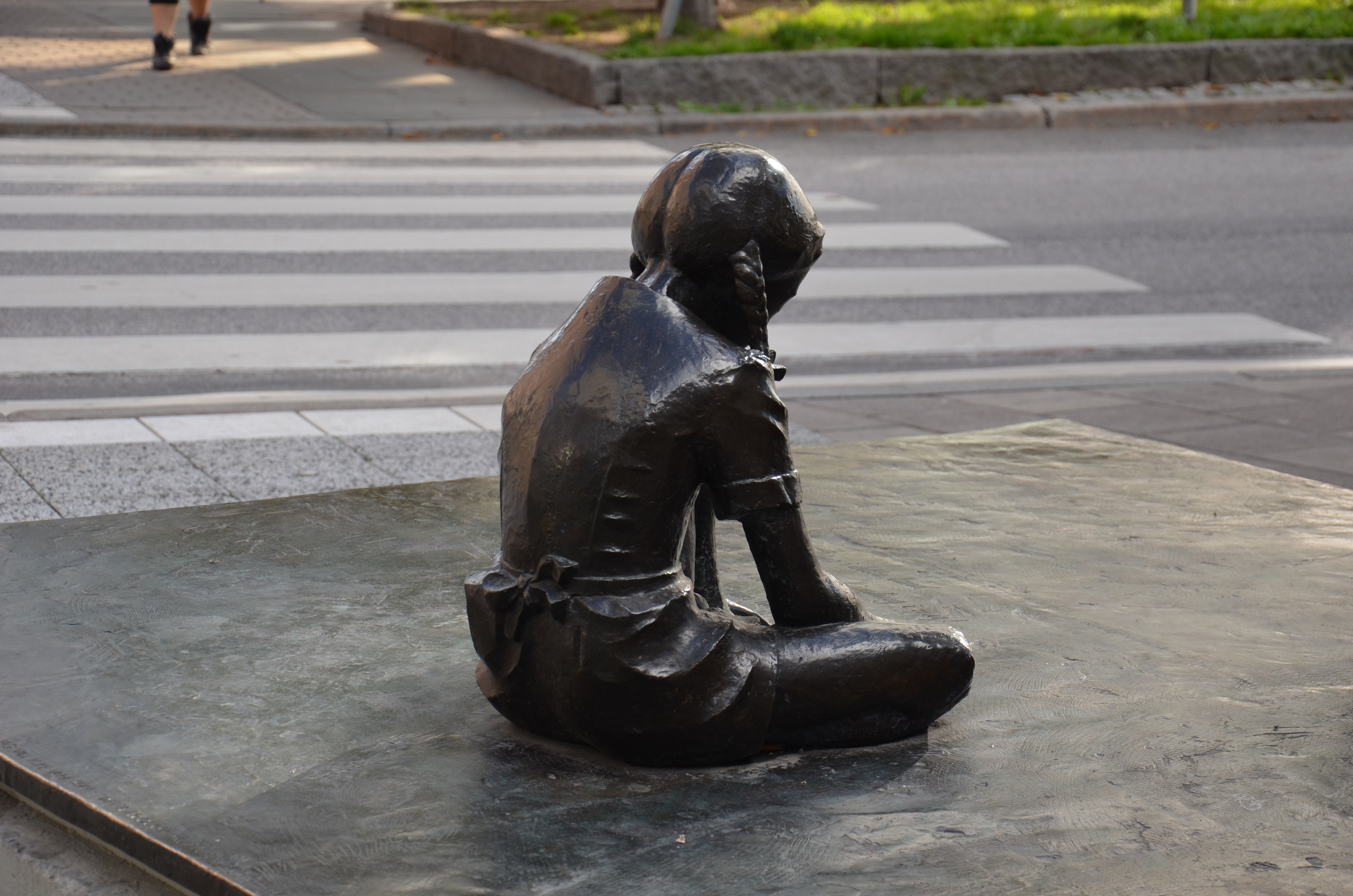 Non Serviam by Ernst Nordin, bronze, Malmskillnadsgatan, Stockholm